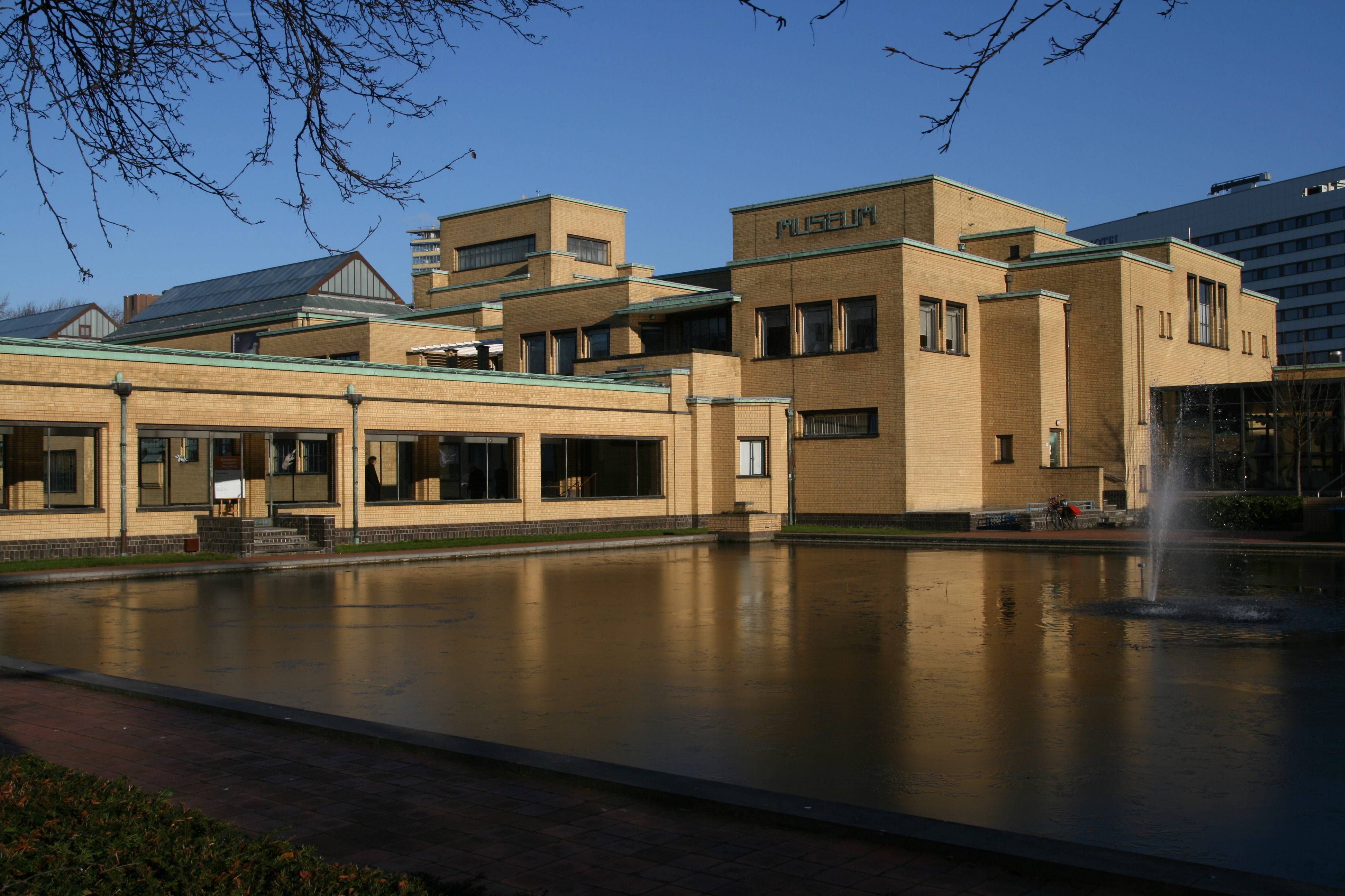 Part of the Kunstmuseum Den Haag in The Hague, Netherlands